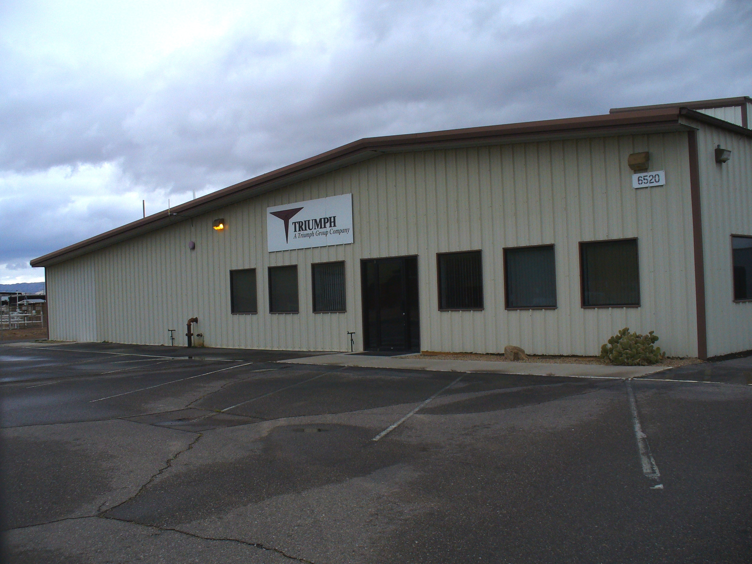 Triumph Engines on West Willis Road in Chandler, Arizona